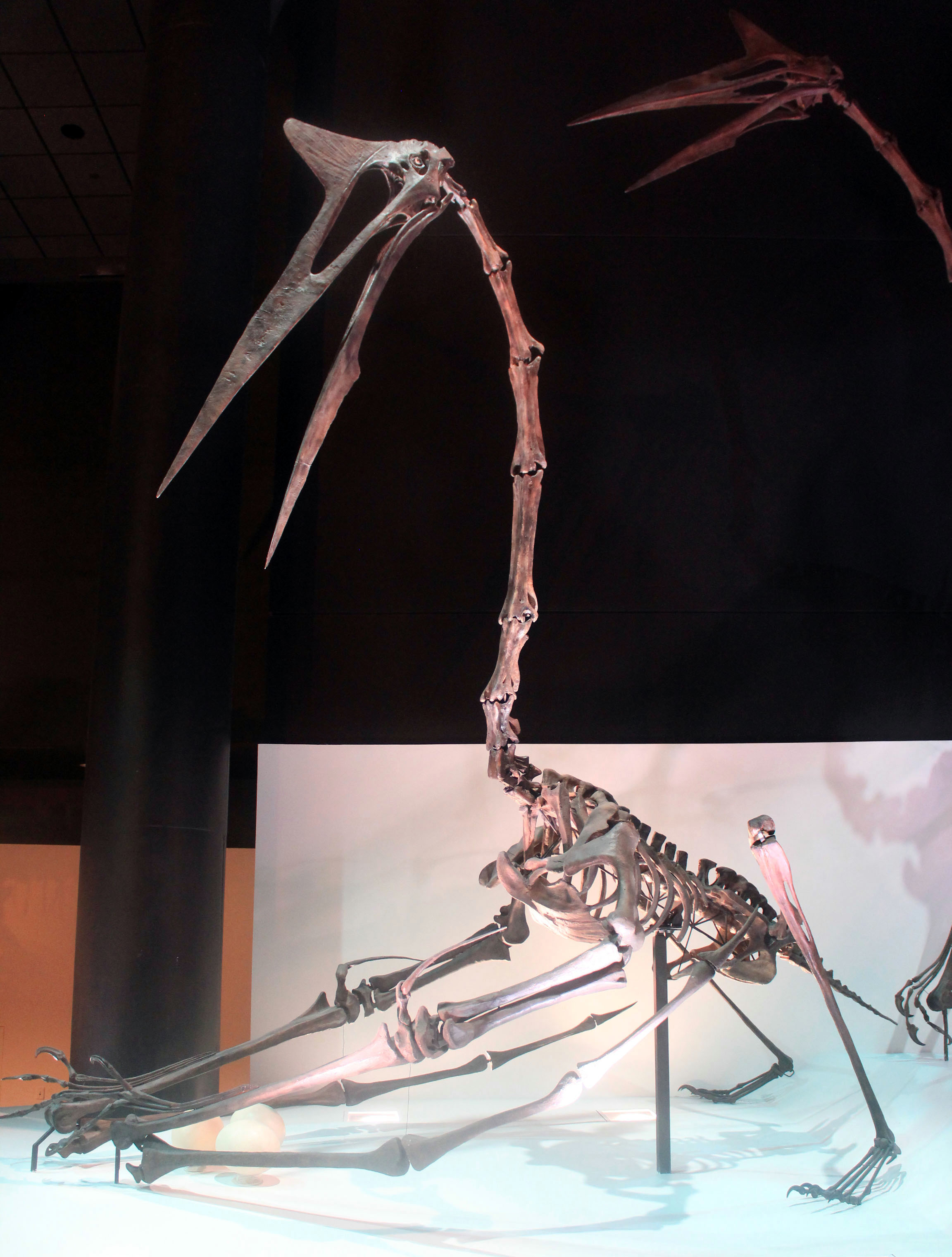 Bones and remains of prehistoric animals One of the largest flying animals ever, with a 40ft wingspan. It's in Houston Museum of Natural Science